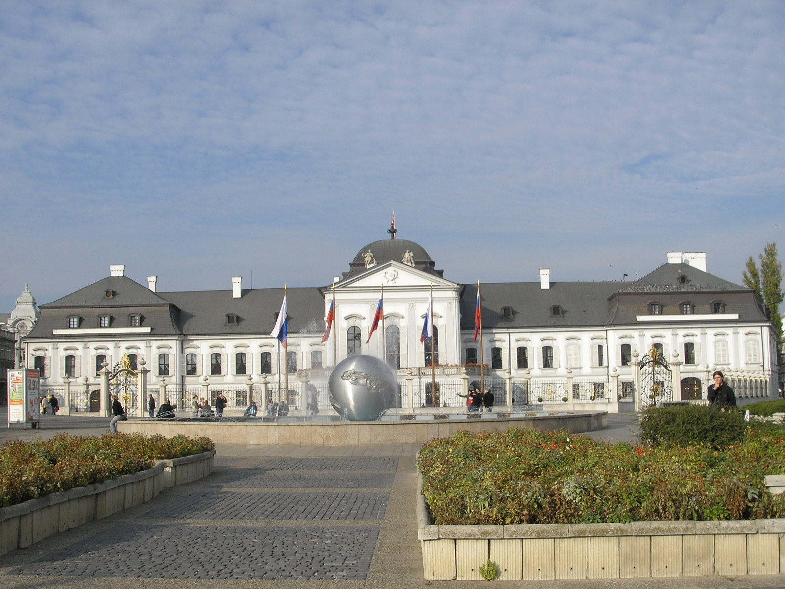 Grassalkovich Palace (Grasalkovicov palác) in Bratislava. Seat of the President of Slovakia.